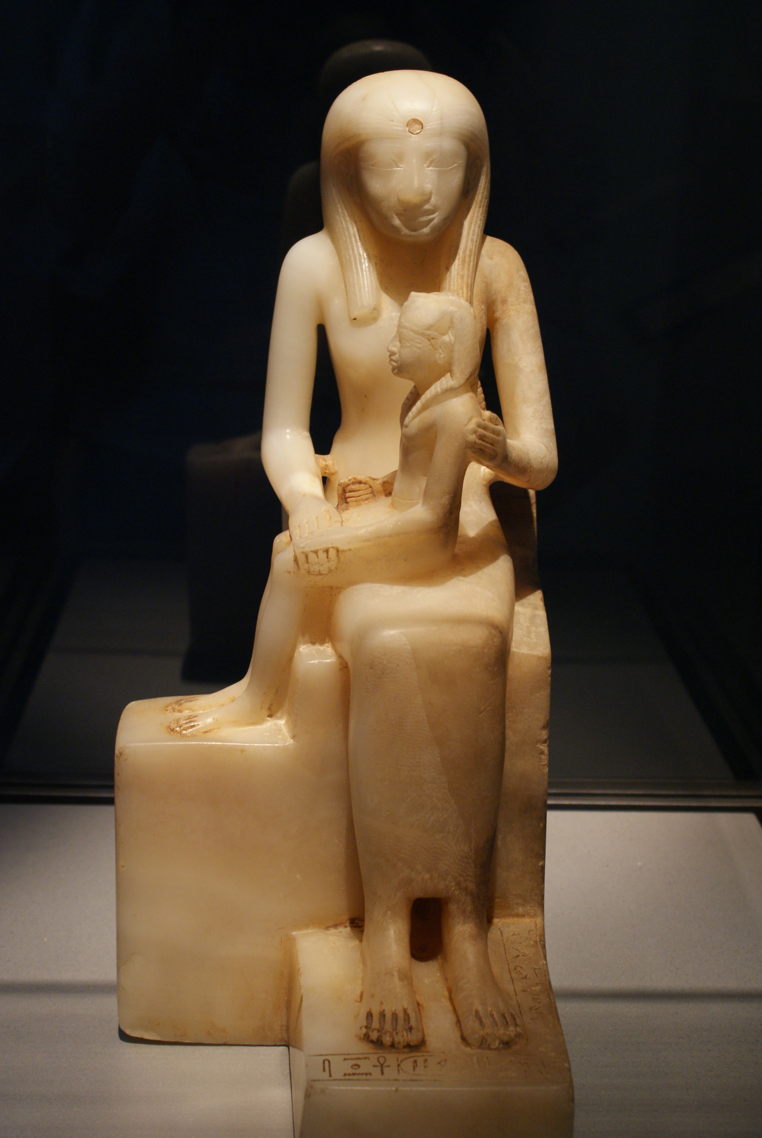 Statuette of Queen Ankhnes-meryre II and her Son, Pepy II, ca. 2288-2224 or 2194 B.C.E. Egyptian alabaster, 15 7/16 x 9 13/16in. (39.2 x 24.9cm). Brooklyn Museum, Charles Edwin Wilbour Fund, 39.119.